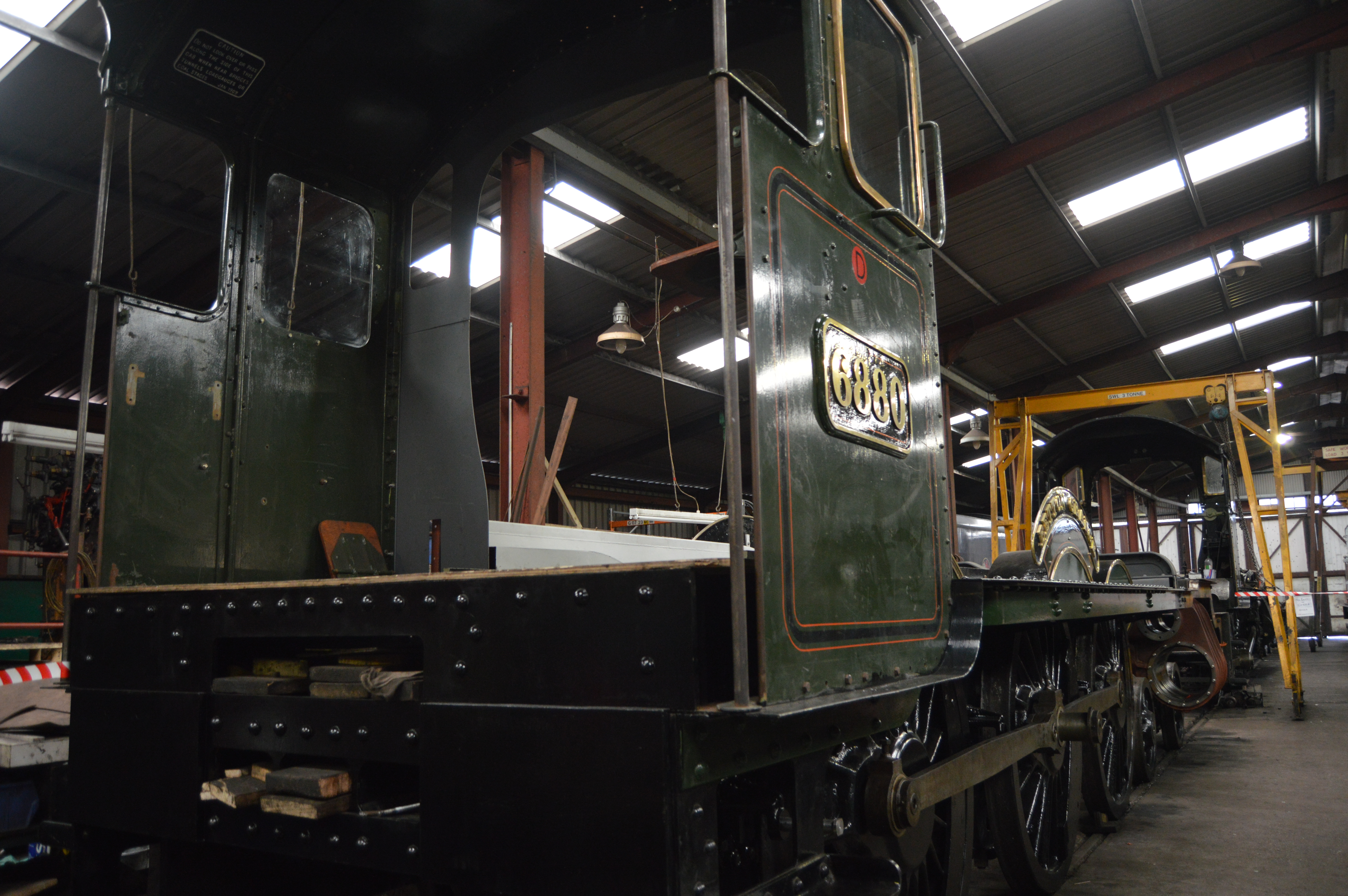 The rolling chassis of GWR 6800 no 6880 Betton Grange inside Llangollen shed.